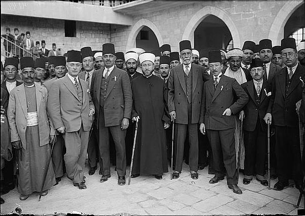 Arab protest delegations, demonstrations and strikes against British policy in Palestine (subsequent to the foregoing disturbances [1929 riots]). An Arab delegation to London. The protest delegation of December 1929. From left to right : unknow - Raghib al-Nashashibi - unknown - Amin al-Husayni - Musa al-Husayni